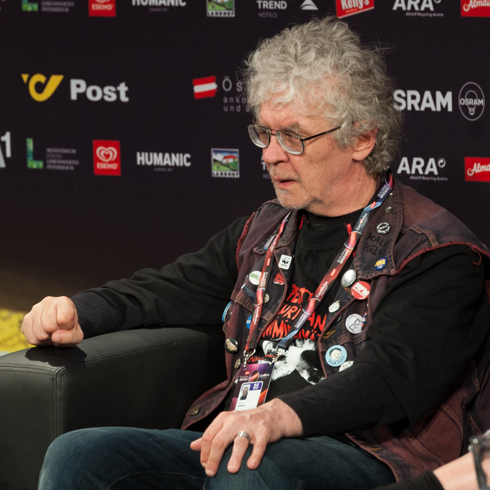 Eurovision Song Contest Vienna 2015: Pertti Kurikan Nimipäivät